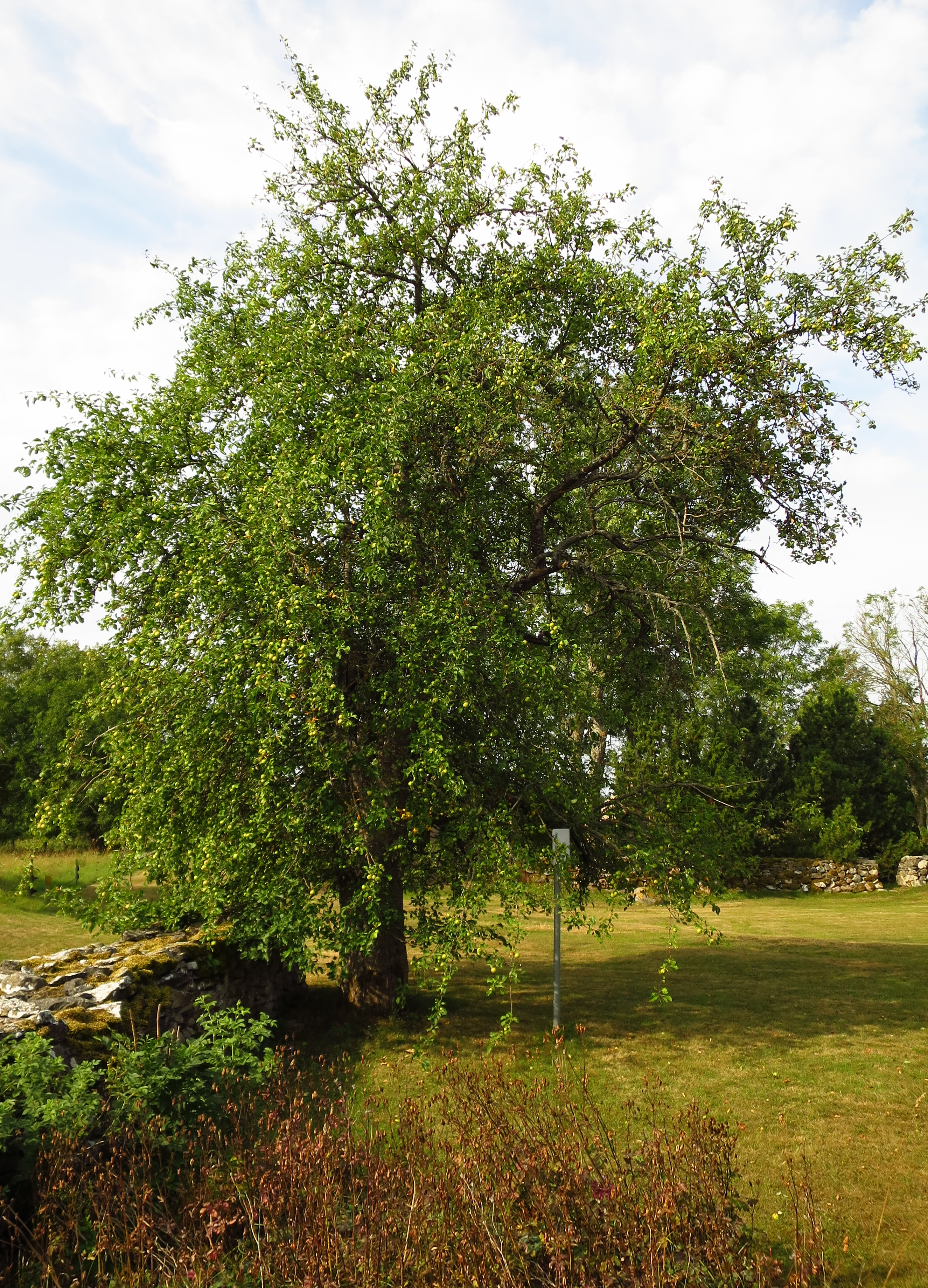 Pilguse metsõunapuu Saaremaal